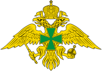 Emblem of the Federal Border Guard Service of the Russian Federation